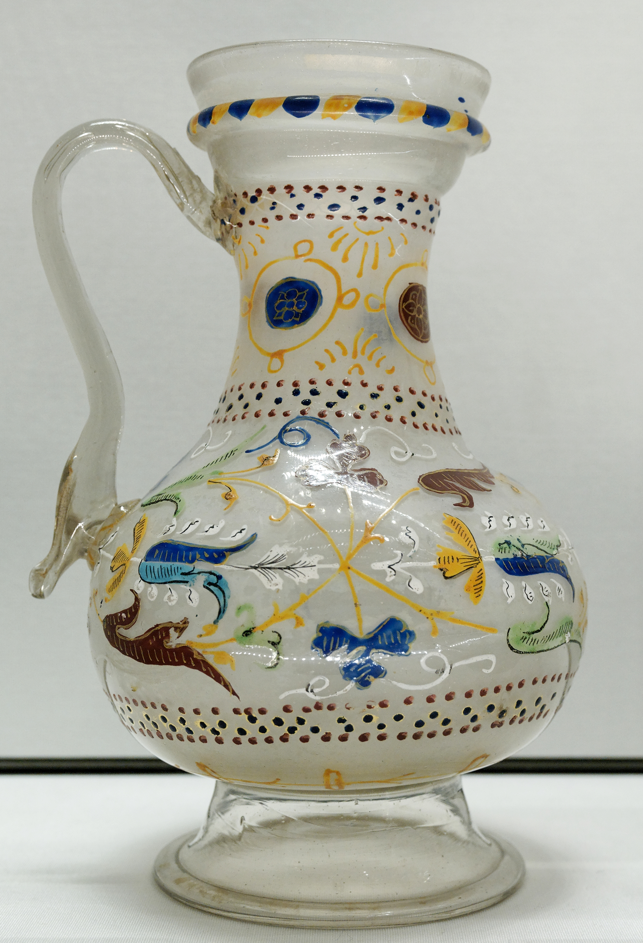 Ewer. Gilt and enameled blown cristallo glass, Venice.